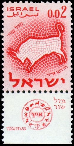 Zodiac I stamp - 0.02 Israeli lira - Sign of Taurus, Month of Iyyar